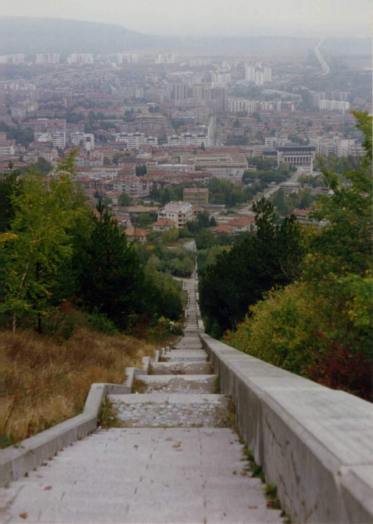 This crazy structure was constructed in 1981. The steps were an unconfortable size and they went on forever. Half way up, we bivouaced here for a while, munching Kendal Mint Cake, waiting for the mist to clear for an assault on the summit. 1300 years of Bulgaria Monument Паметник на създателите на Българската държава